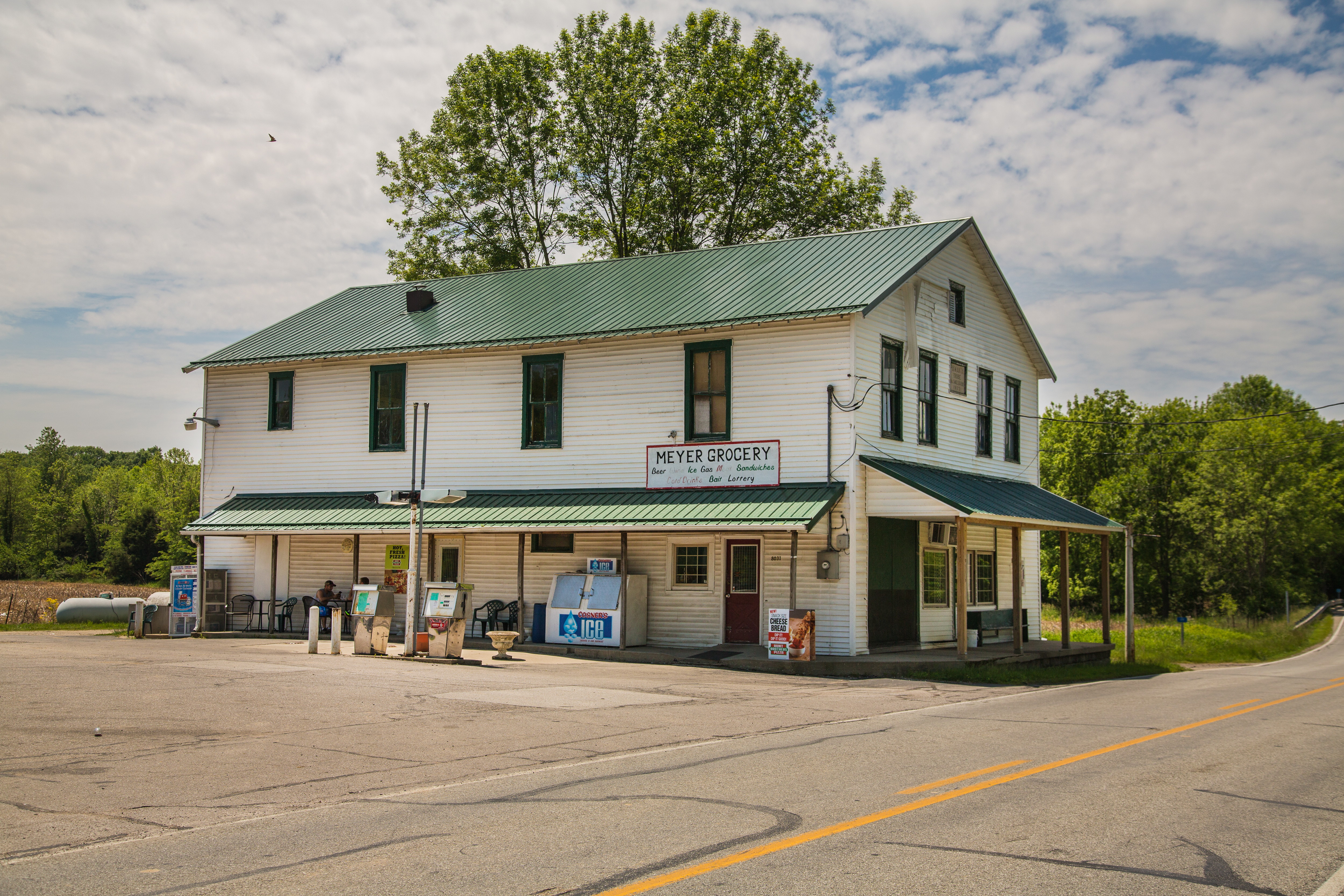 Photo from Small Town Indiana photo survey.